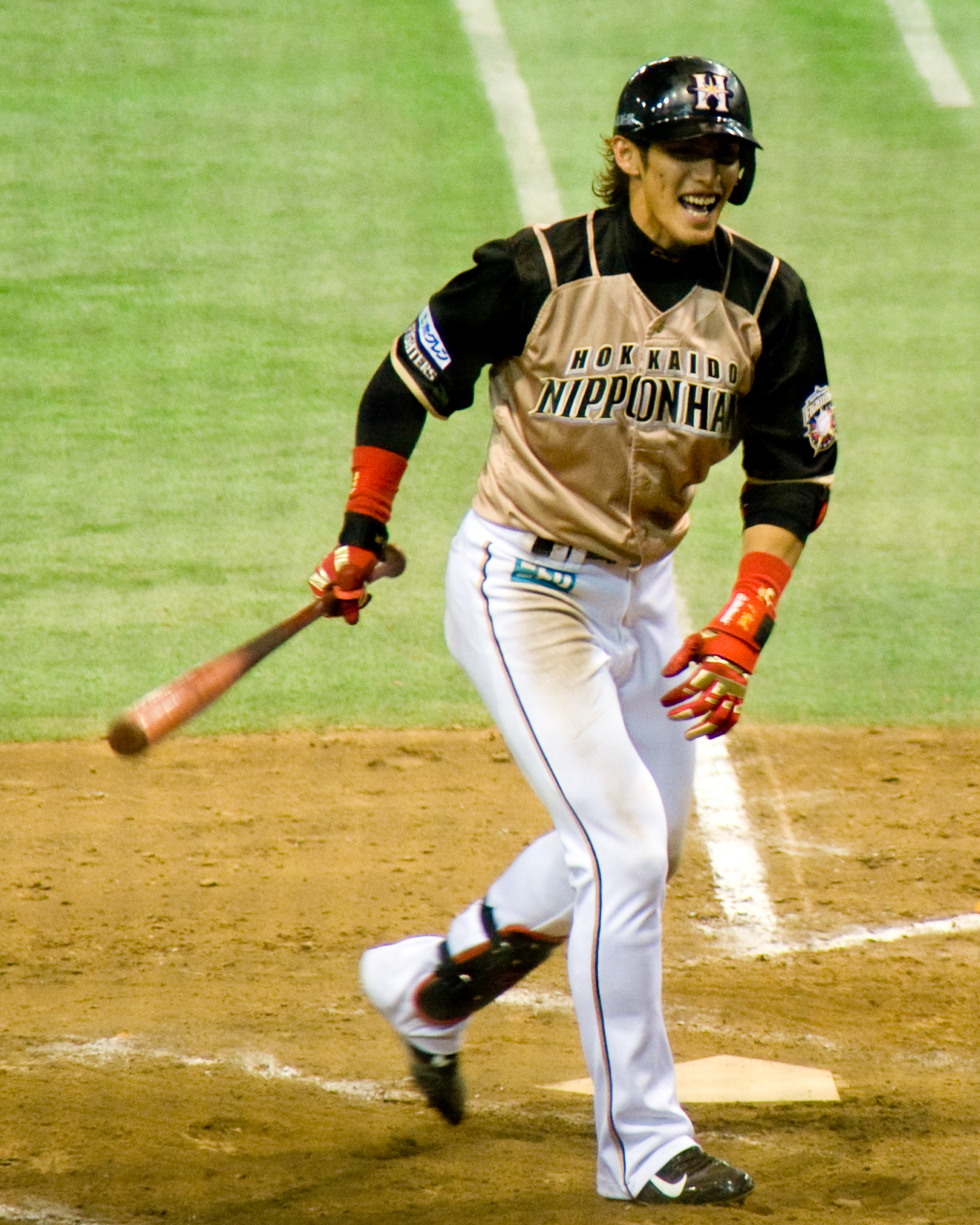 Dai-Kang Yang, outfielder of the Hokkaido Nippon-Ham Fighters, at Tokyo Dome.